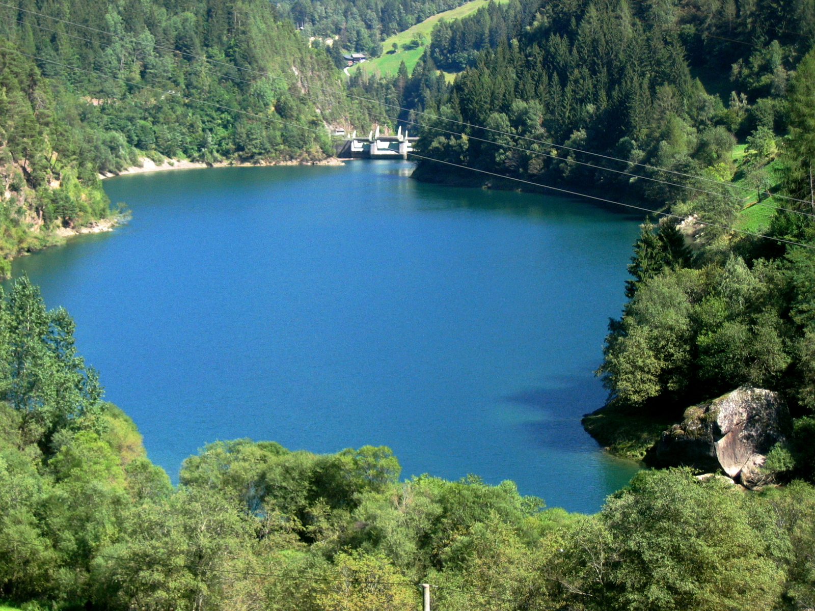 Reservoir near Sankt Pankraz in the Ulten Valley (South Tyrol)